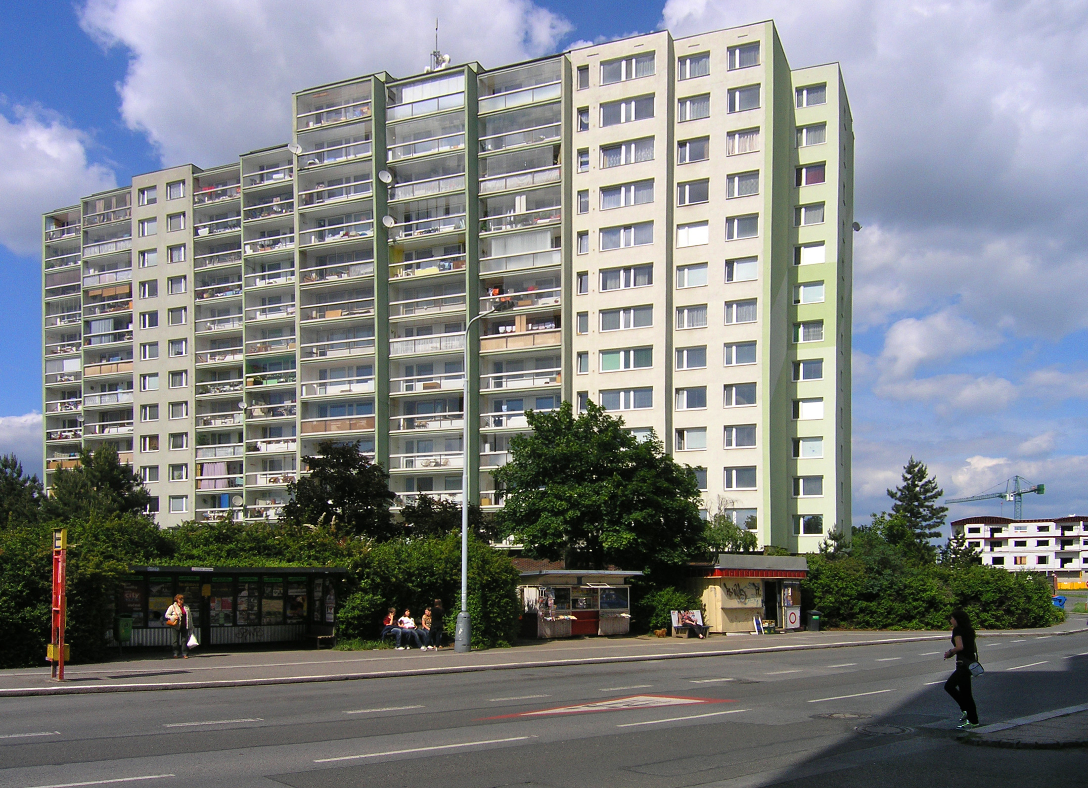 Kukelská street in Hloubětín, Prague